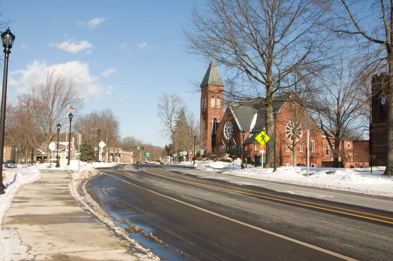 South Hadley, Massachusetts "green", facing north, showing the Congregational church and Route 116 (MA); Mount Holyoke College is to the immediate right of the image, and the Village Commons shopping complex to the immediate left.